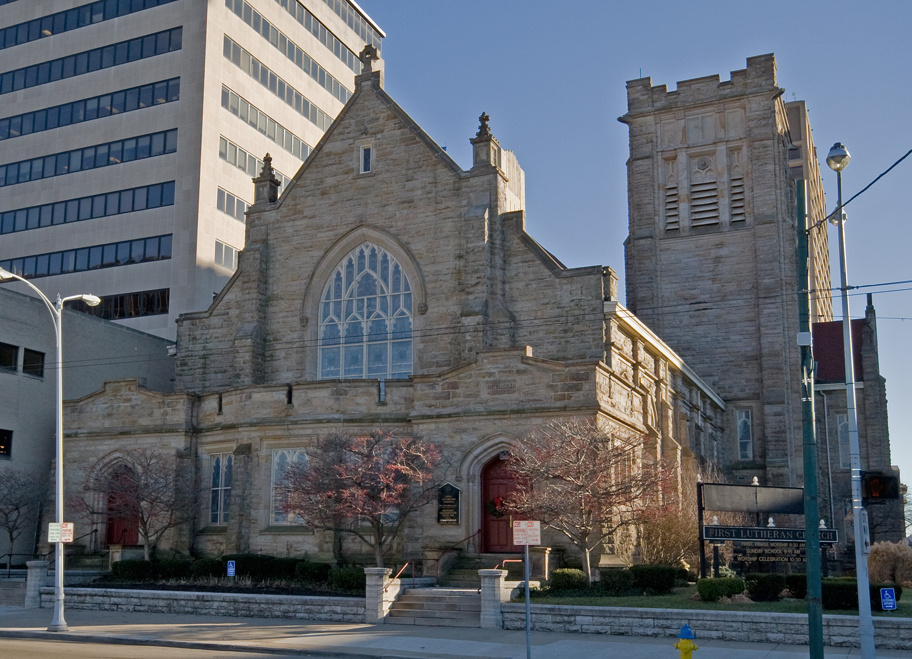 First Lutheran Church in Dayton, Oh. Photo by Greg Hume.